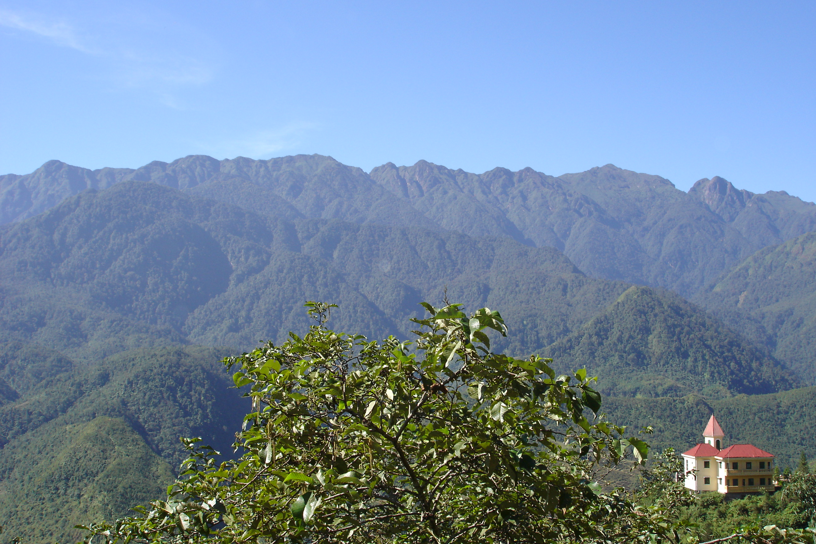 Hoang Lien Mountains from Sapa (Vietnam).